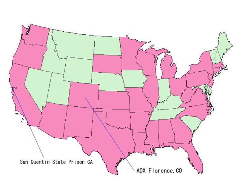 Members of Aryan Brotherhood, in Prisons of map of United States of America. References from Documentary film "White Nationalism Aryan Brotherhood", National Geographic Channel.